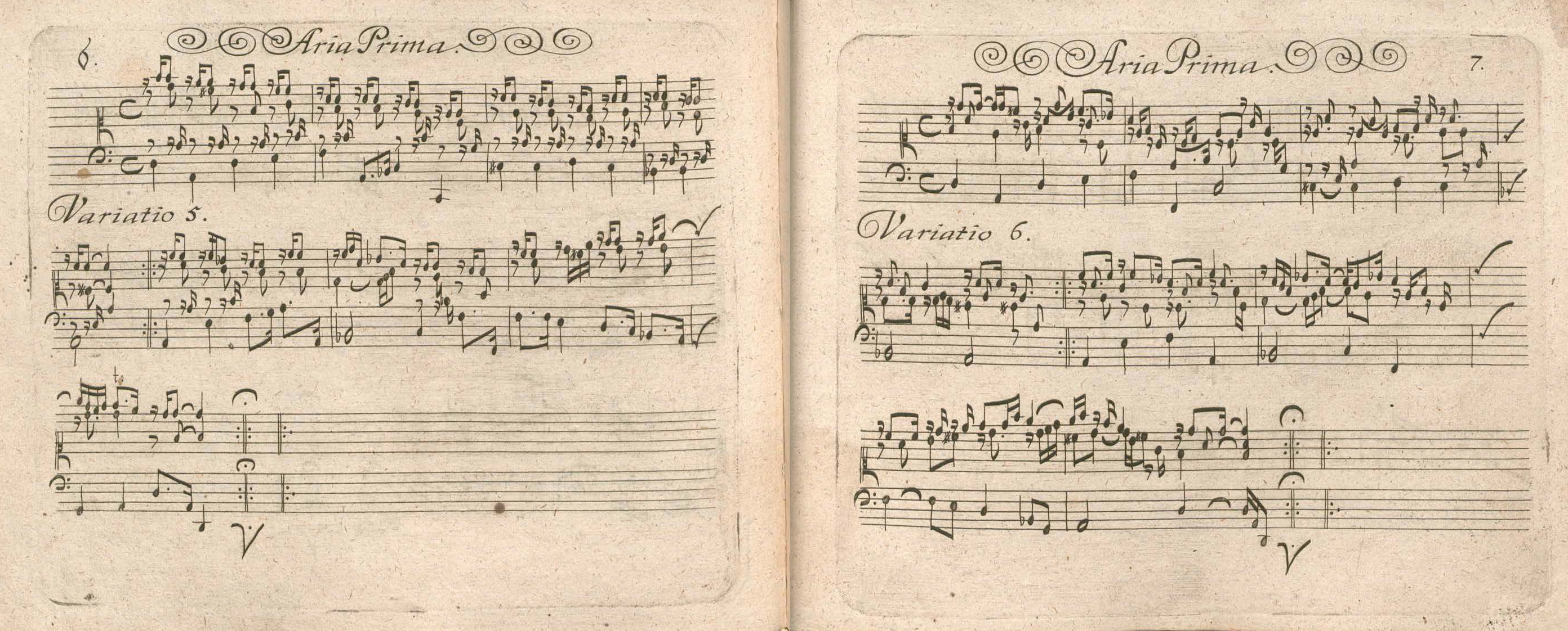 Two pages from Pachelbel's "Hexachordum Apollinis", showing variations 5 and 6 from the first aria.